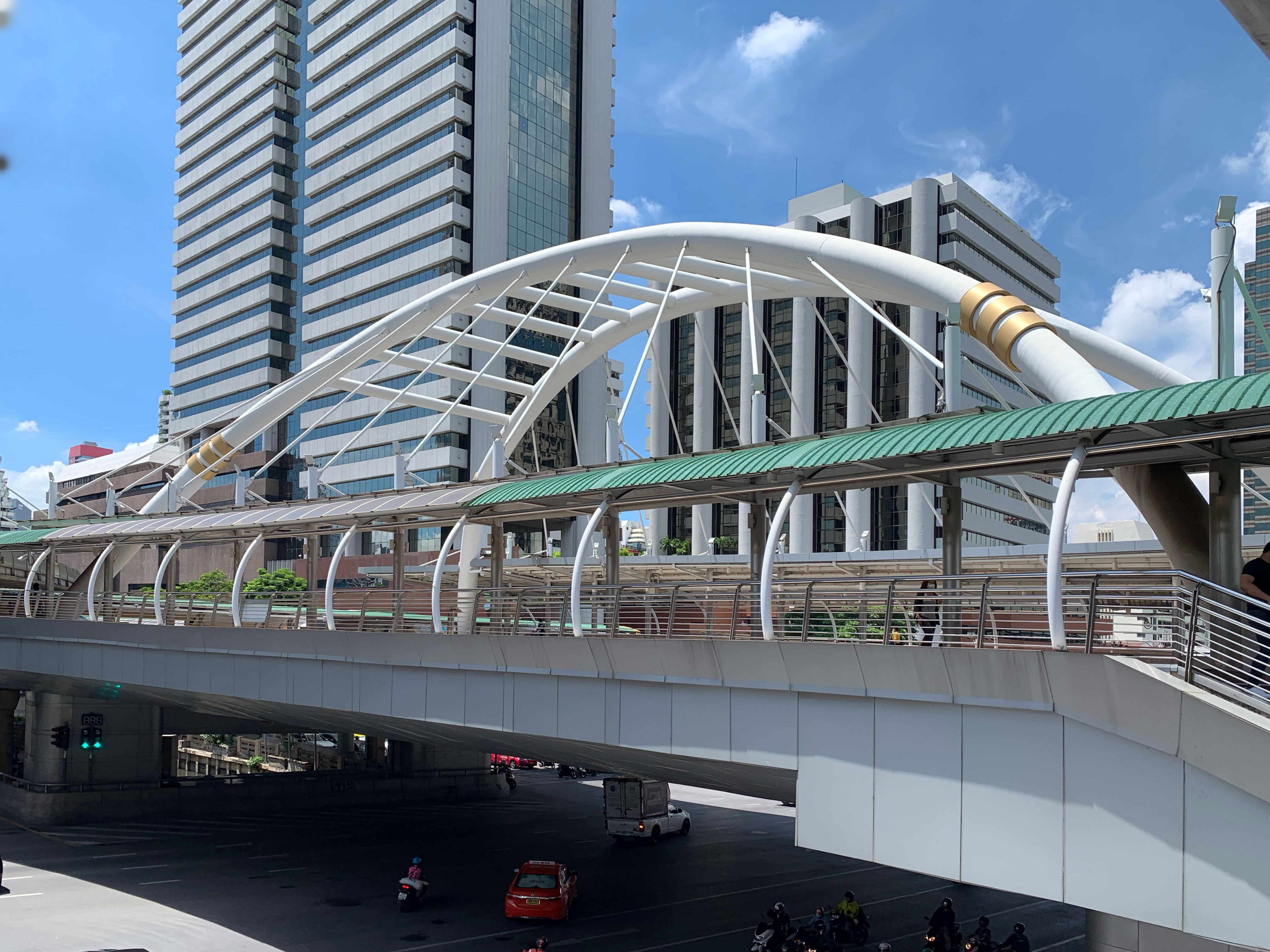 Chong Nonsi Skywalk Bangkok